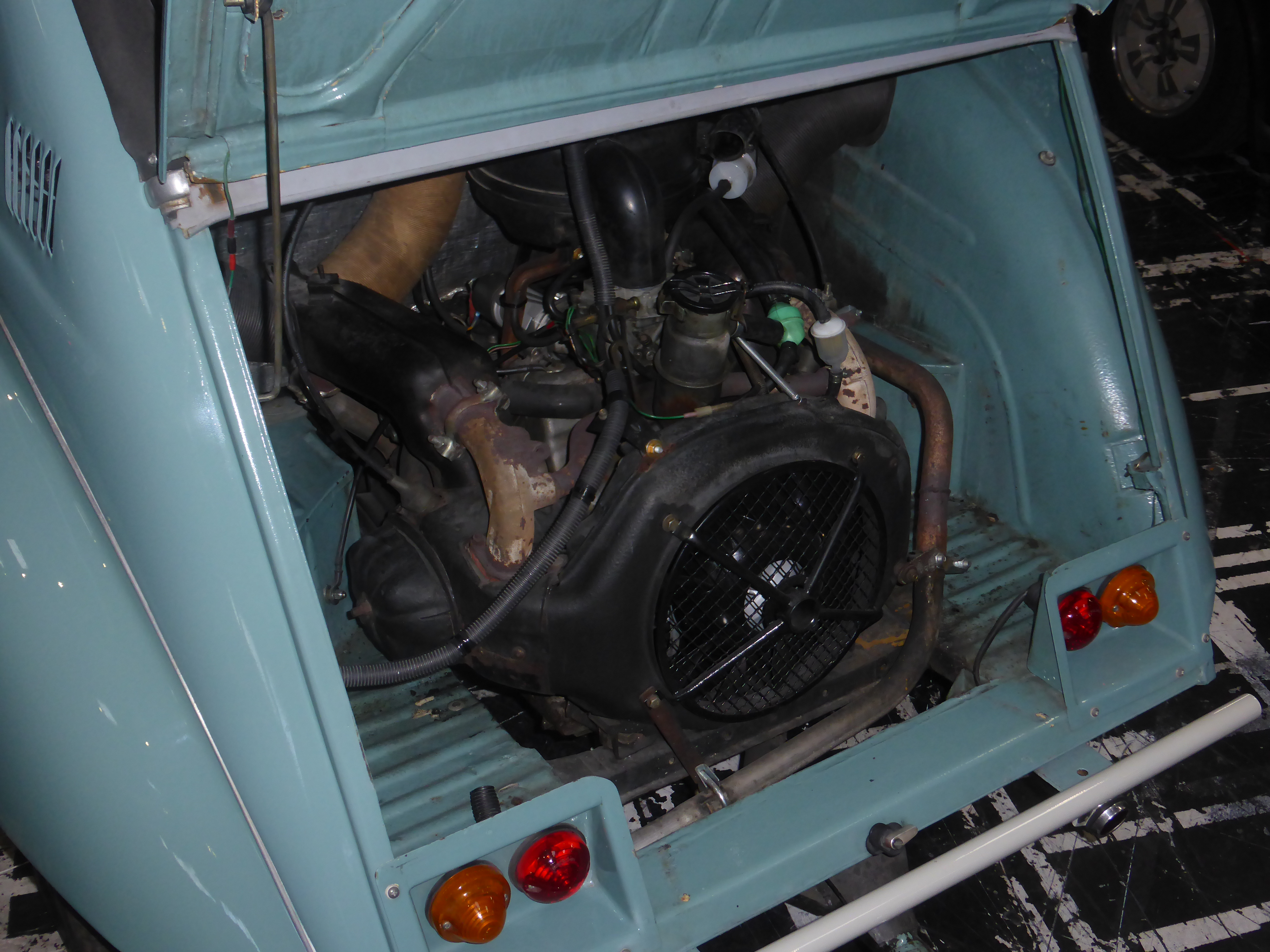 Twin-engined Tin Snail. 1304cc in total (2 x 652)! NEC Classic Car Show, Birmingham 10 November 2017